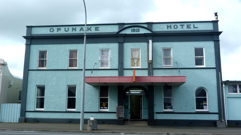 Opunake Hotel 1915